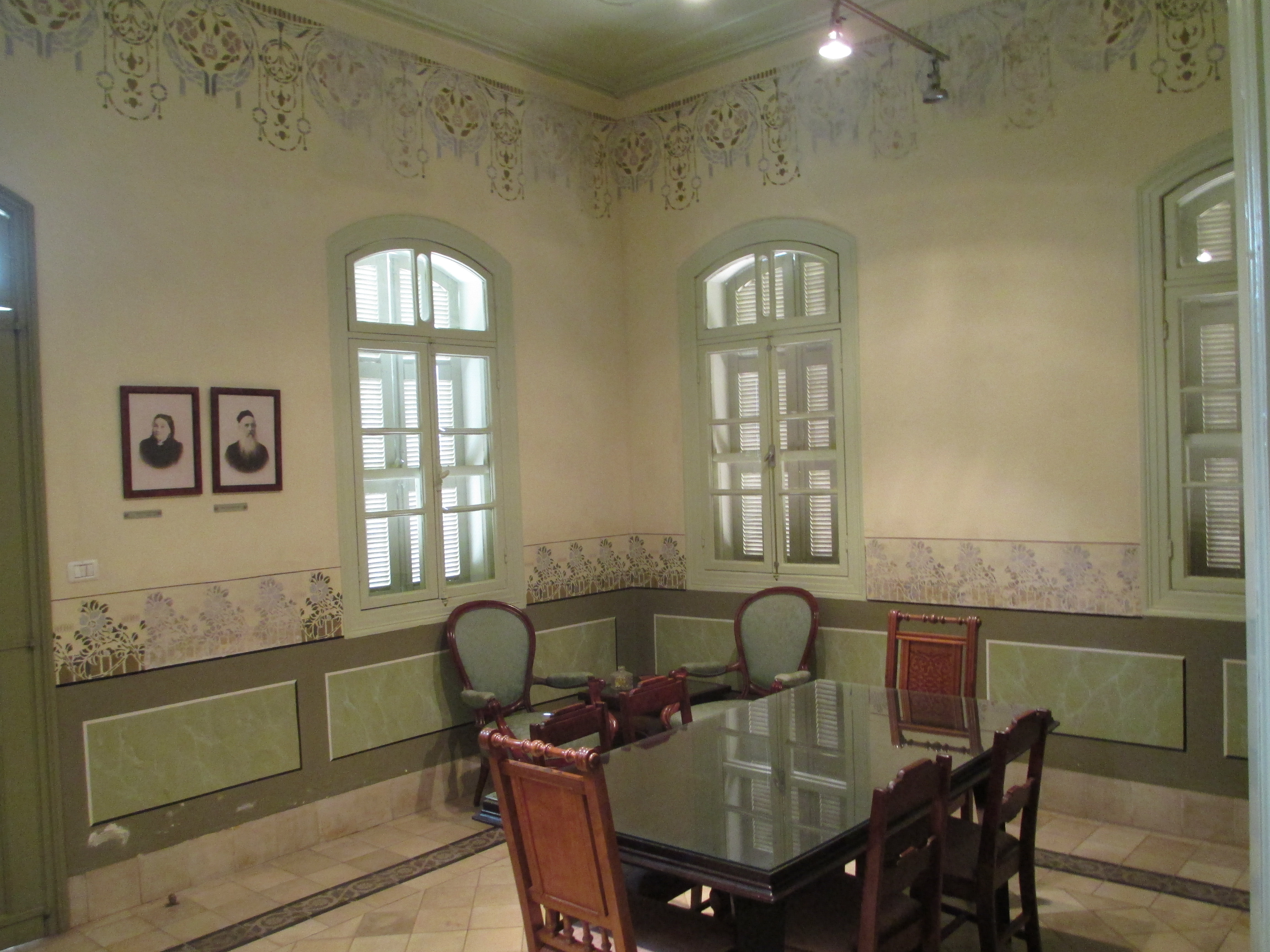 Feinberg house in Hadera